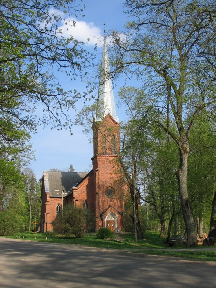 Mazsalaca Saint Anne Evangelical Lutheran Church